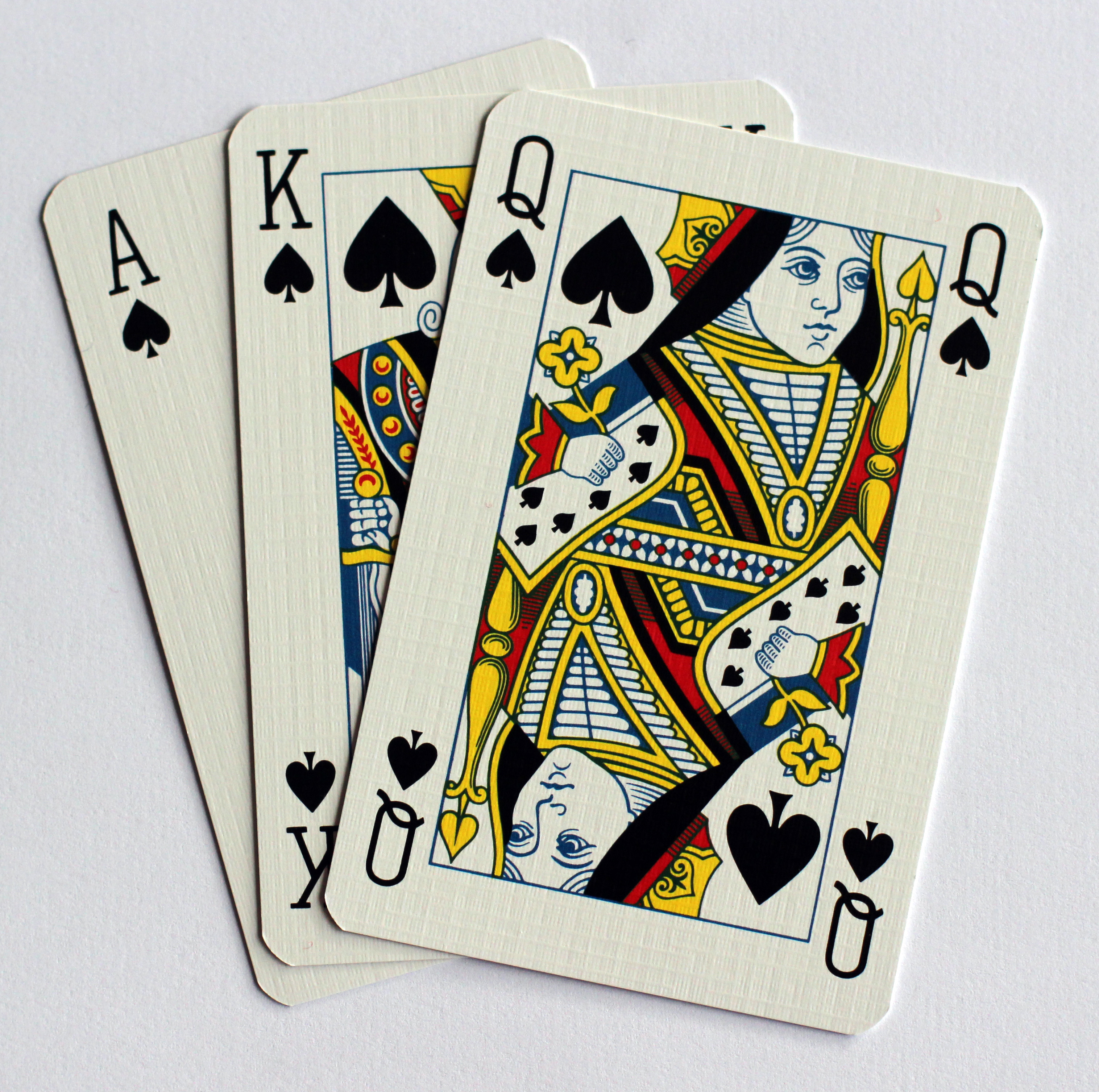 The Ace, King and Queen of Spades are the highest scoring penalty cards in the game of Black Maria